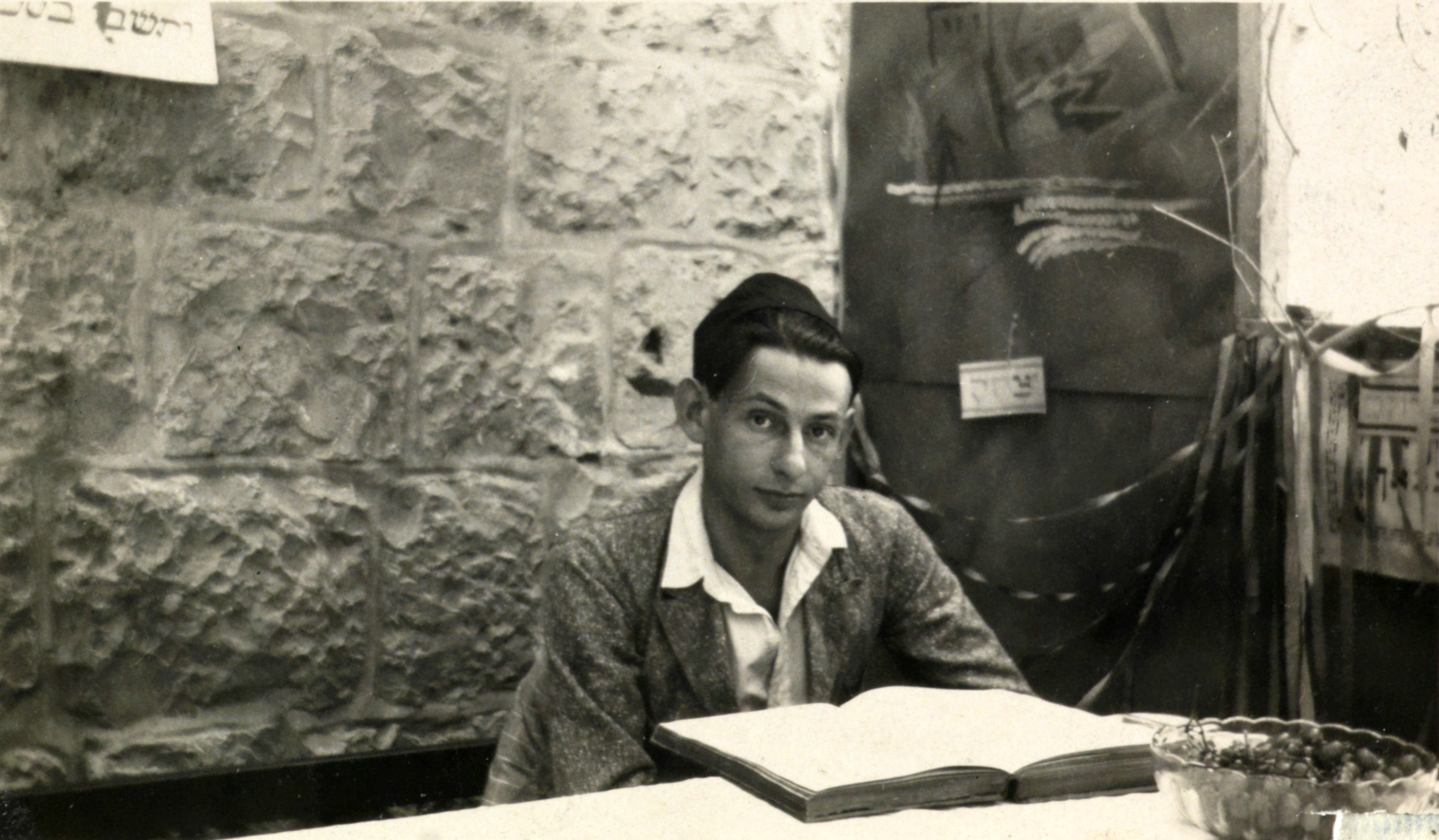 Gershom Scholem sitting in Sukka learning Zohar Depicted person: Gershom Scholem – German-born Israeli philosopher and historian